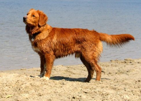 Nova Scotia Duck Tolling Retriever – Seawild's Taste Of Trouble